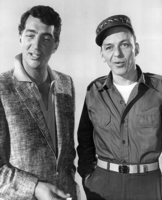 Photo of Frank Sinatra and Dean Martin from The Dean Martin Show.